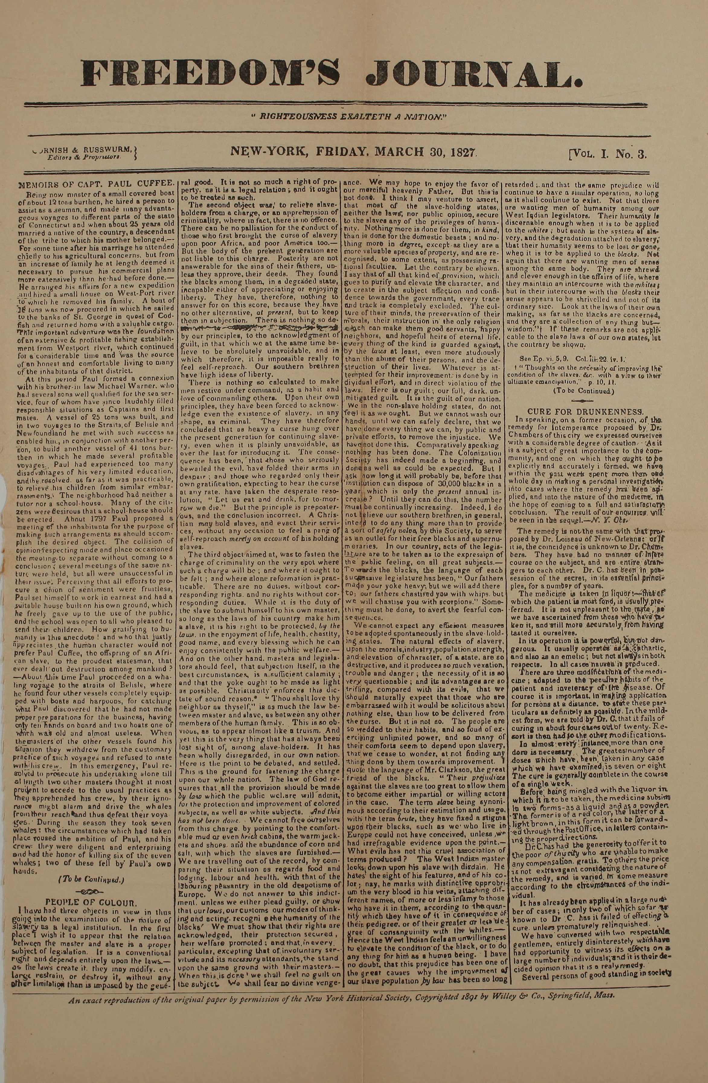 Scan from The Afro-American Press